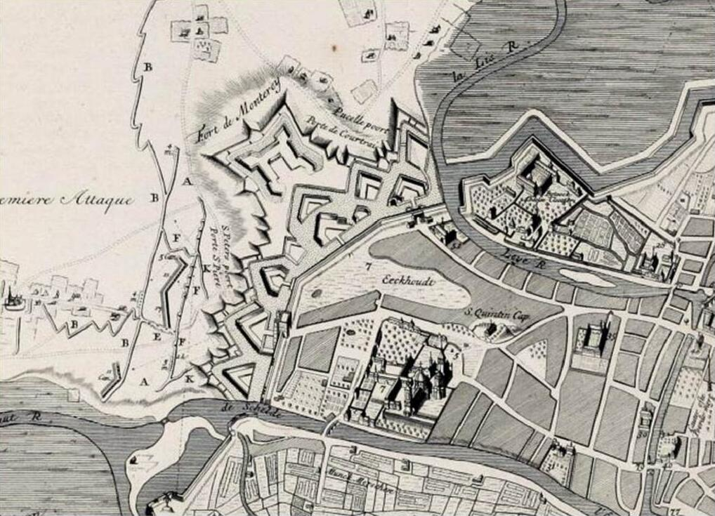 Gent,_Belgium,_oude_kaart.jpg